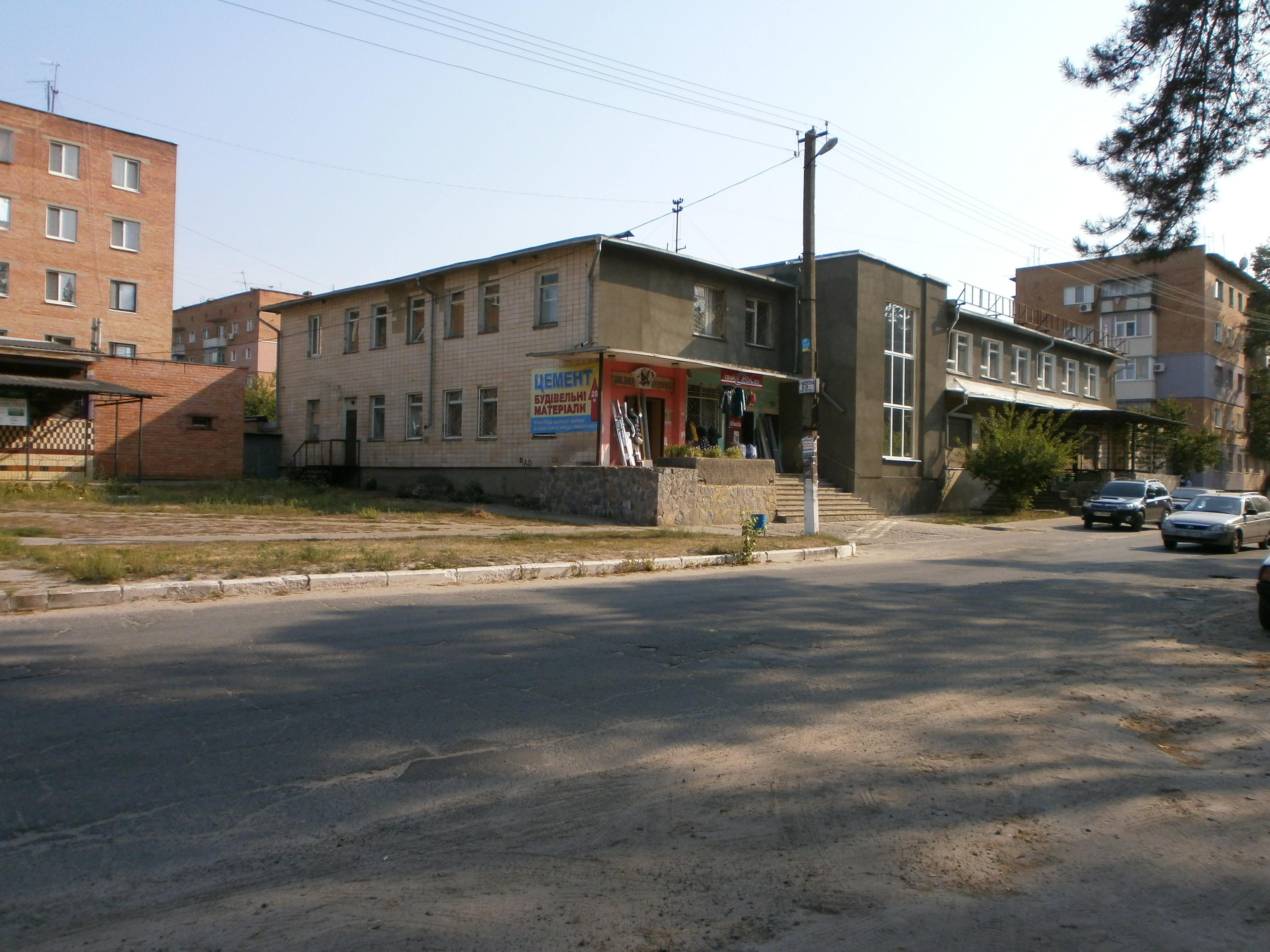 In the centre of Tereshky village, Poltava district